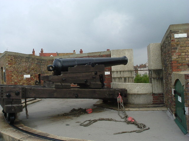 32 Pounder gun on traversing carriage, c1850, Eastbourne Redoubt, East Sussex.